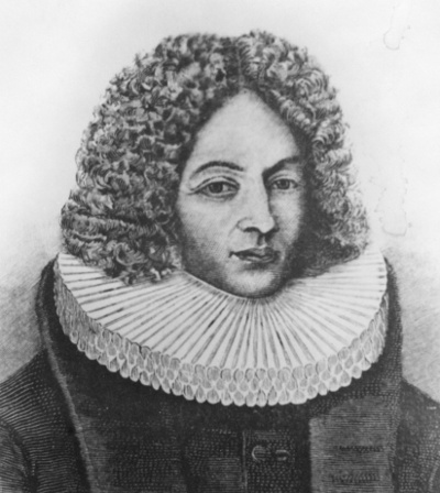 Thomas von Westen (1682-1727), Missionary of the Laplander in Norway